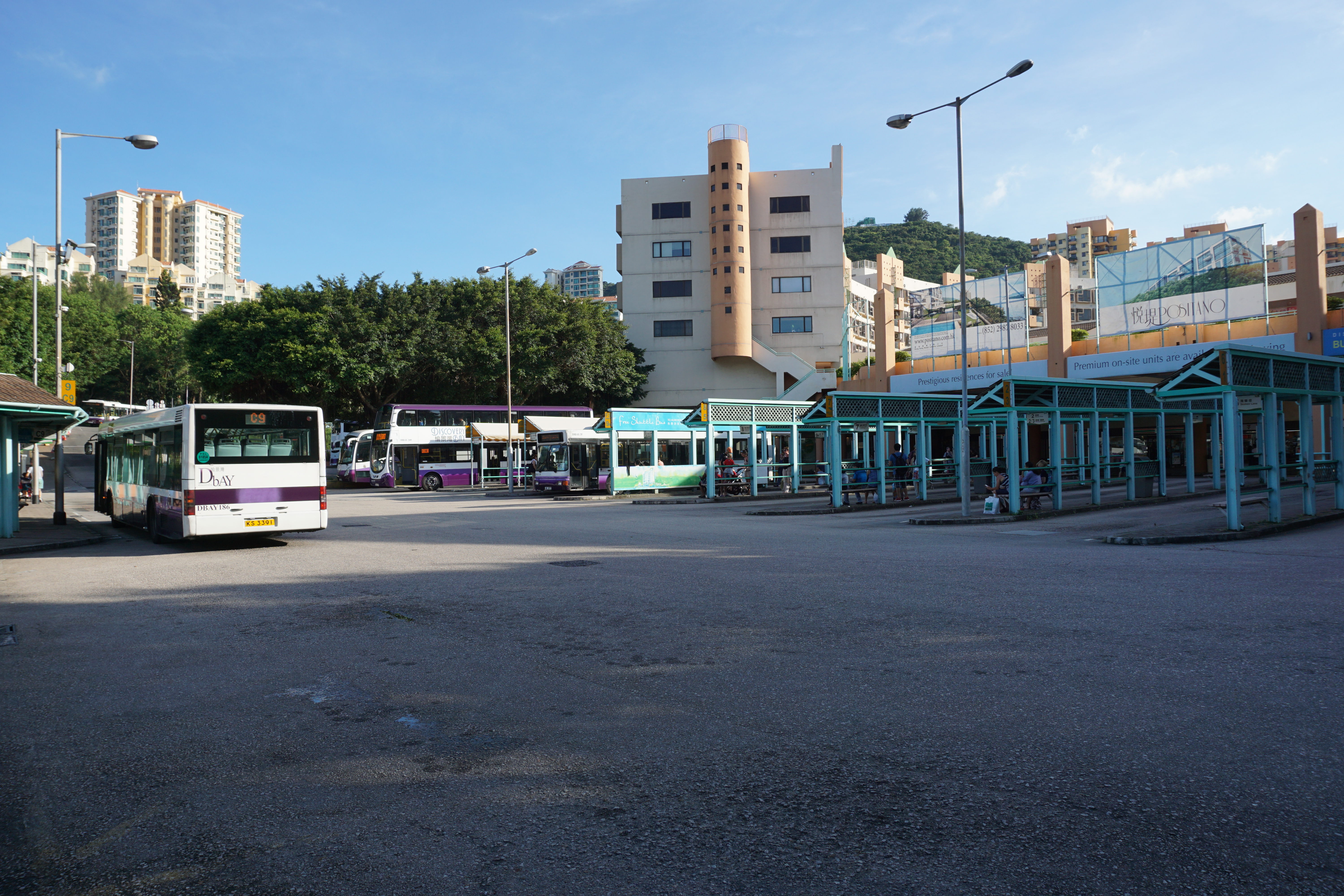 Bus Terminus in Discovery Bay, Hong Kong.